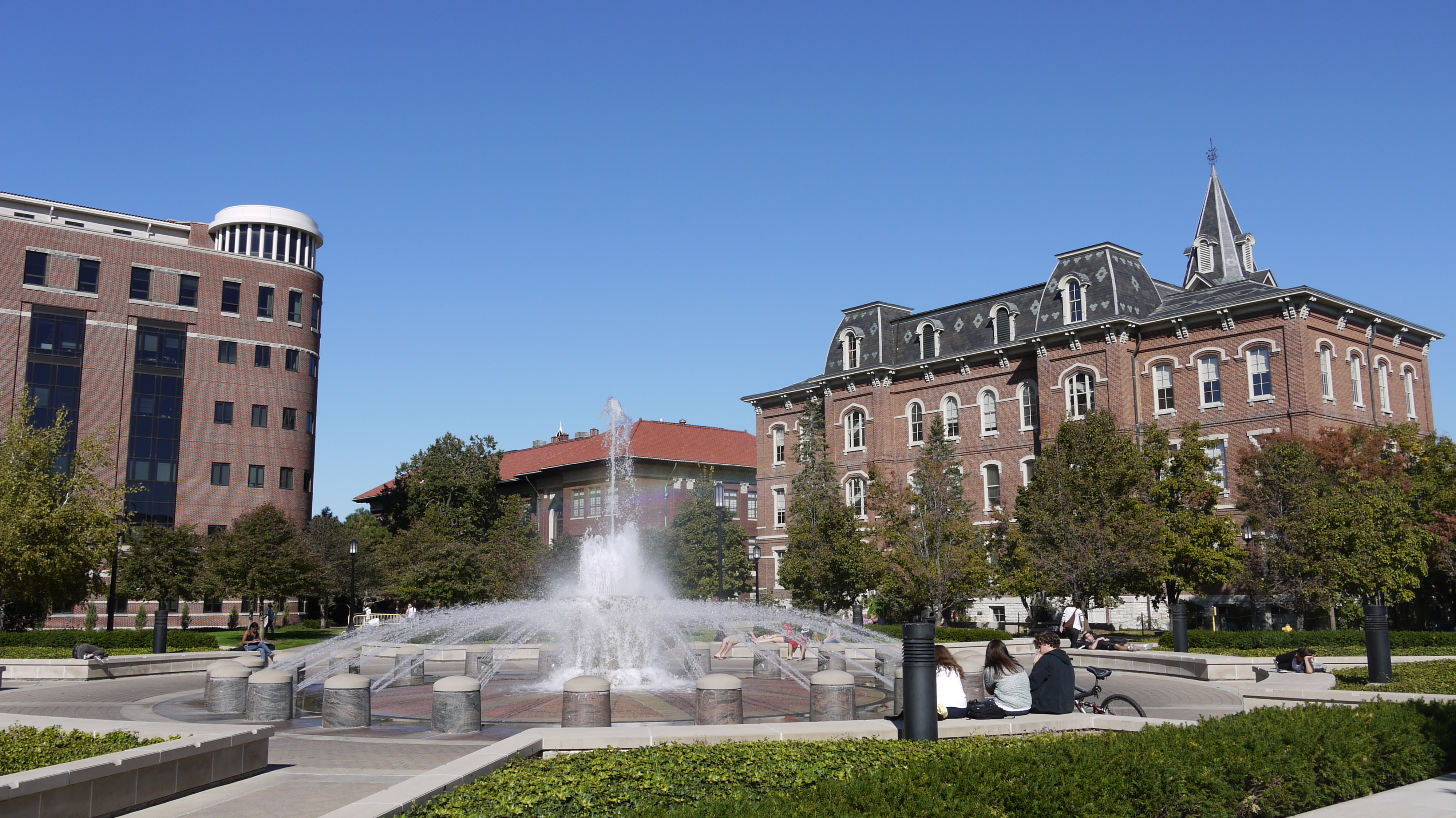 Purdue University Loeb Fountain, also known as the Liberal Arts fountain.